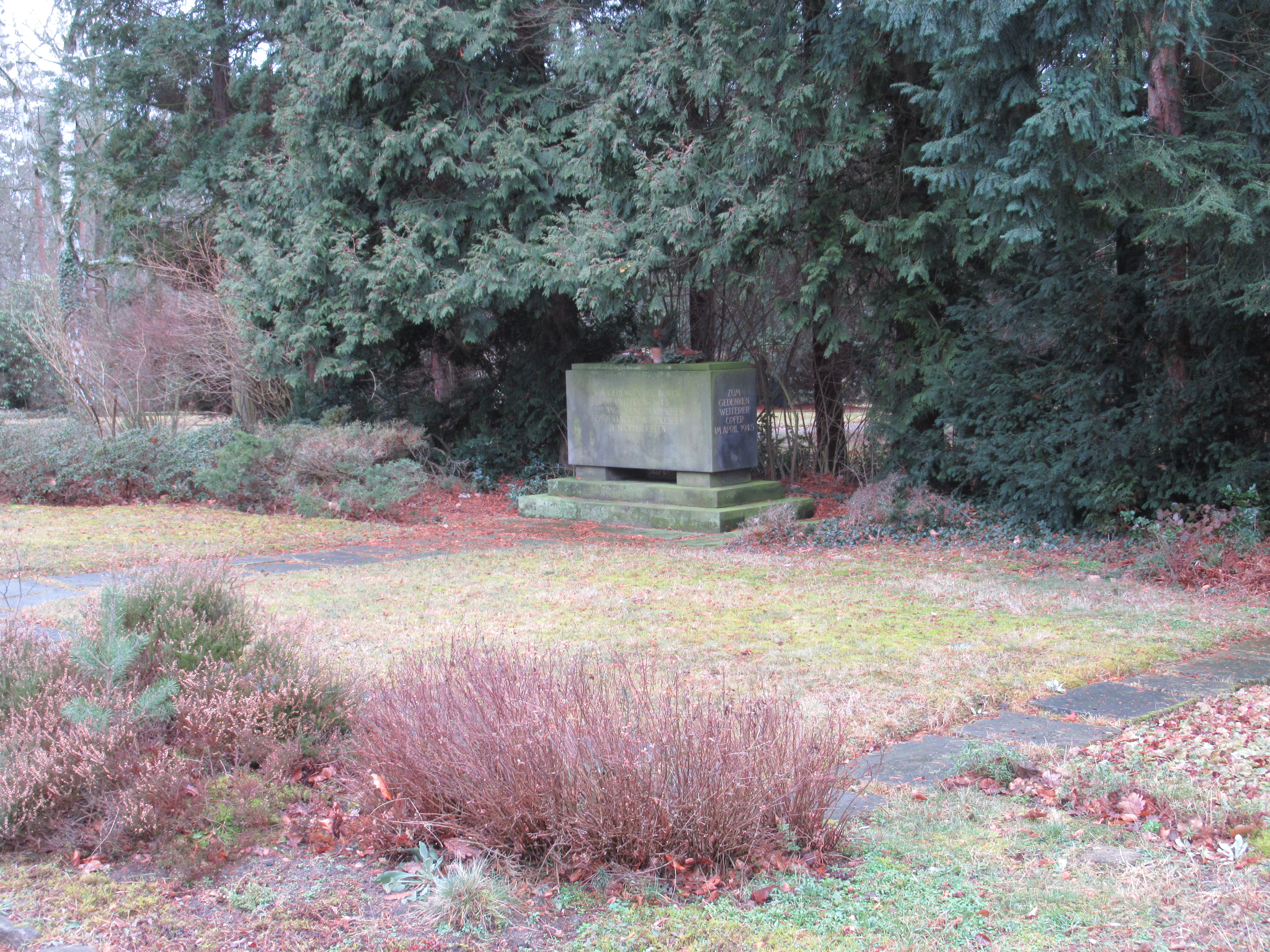 Dresden Nordfriedhof Mass Grave of Bombing Victims 1945